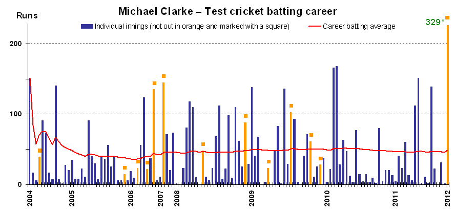 This graph details the test match performance of cricketer Michael Clarke and was created by en.wiki user:EdChem. Each bar indicates a single test match innings, blue ones for innings in which he was dismissed, orange ones for innings in which he batted but was not out. The red line shows career batting average as at the end of each innings.